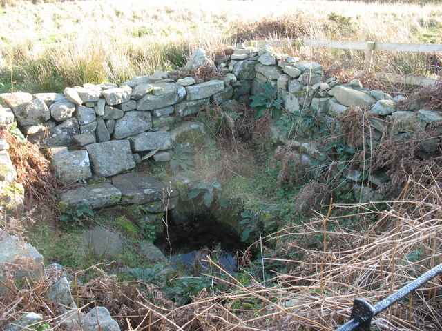 Ffynnon Aelrhiw The well is located in a field below the church and away from the adders. Long after the Reformation people visited the well because of the reputation of its waters as a means of healing skin diseases. Another well, Ffynnon Saint SH241294, was frequented by people with eye problems. This innocent practise finally came to an end with the imposition of a dour brand of Calvinism in the early 19thC.